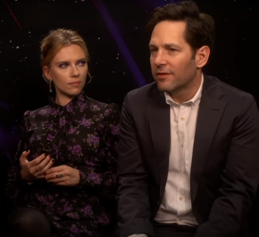 Cosmopolitan UK chats to Avengers: Endgame stars Paul Rudd and Scarlett Johansson, also known as Ant-Man and Black Widow, about hilarious questions and gifts they've received from Marvel fans as well as which Avengers co-stars they were starstruck by.